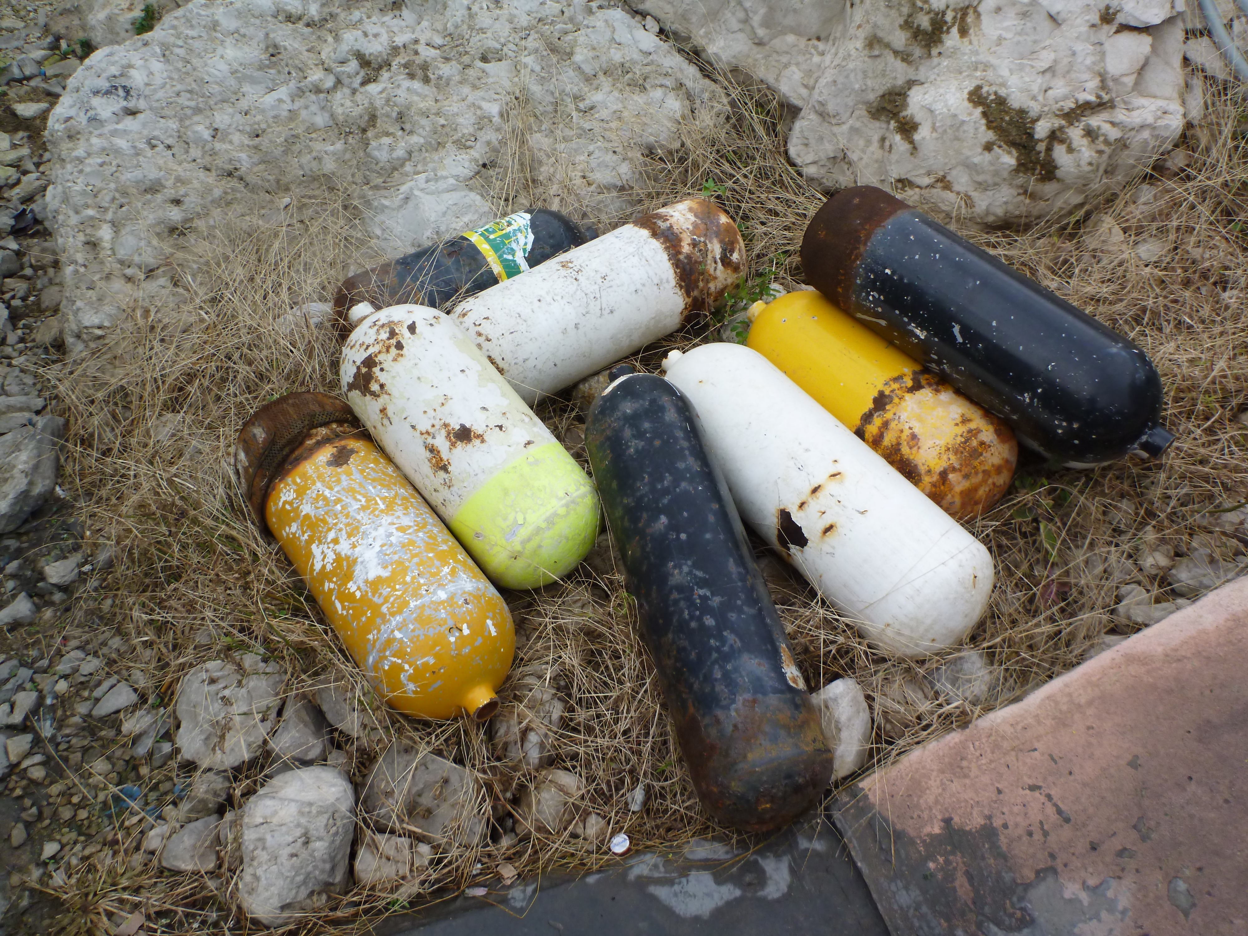 Old diving cylingers